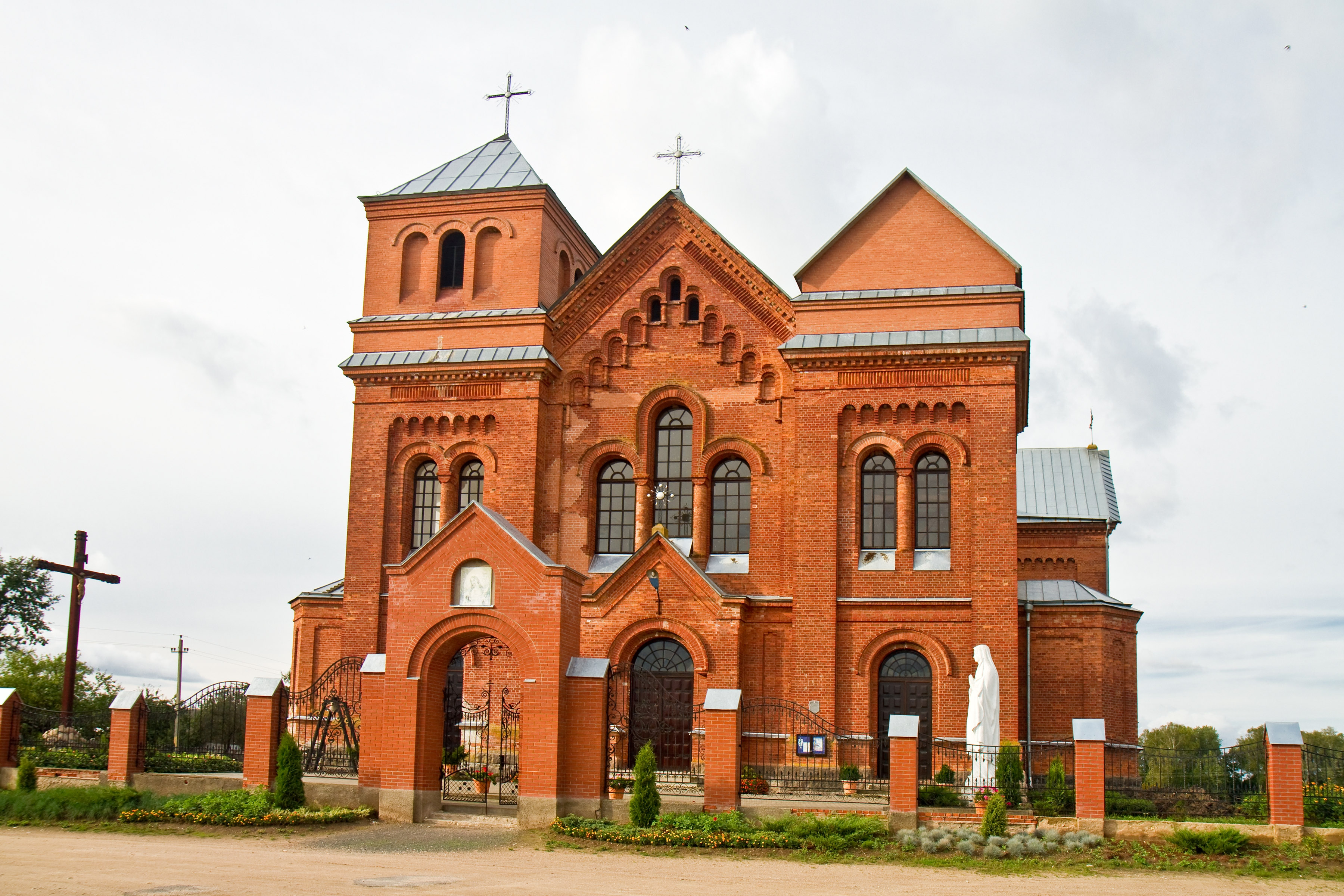 Catholic church of the Holy Trinity in Rosica. Vierchniadźvinsk district, Viciebsk province, Belarus.